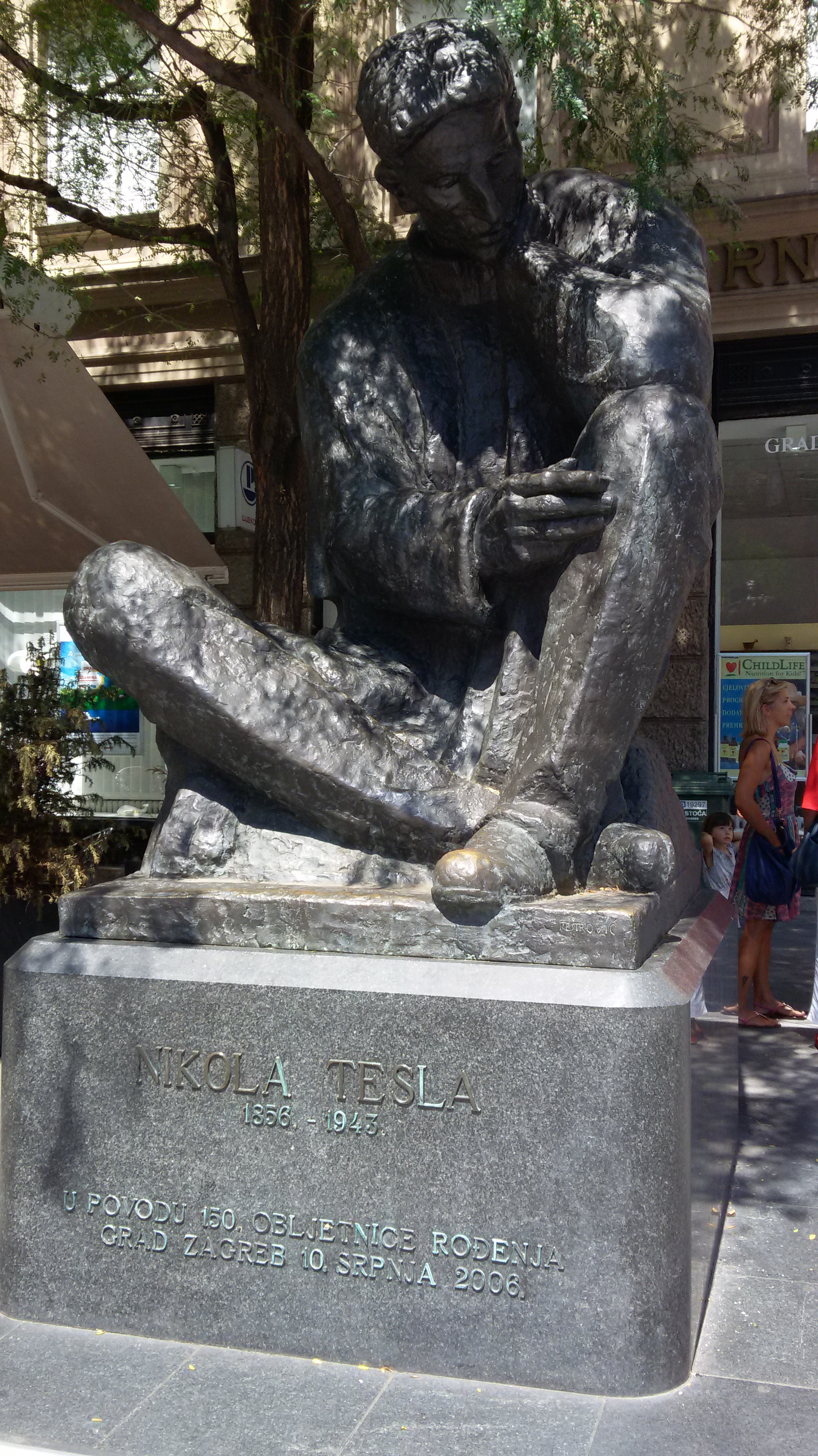 A statue standing in memory of Nikola Tesla in Zagreb, Croatia.